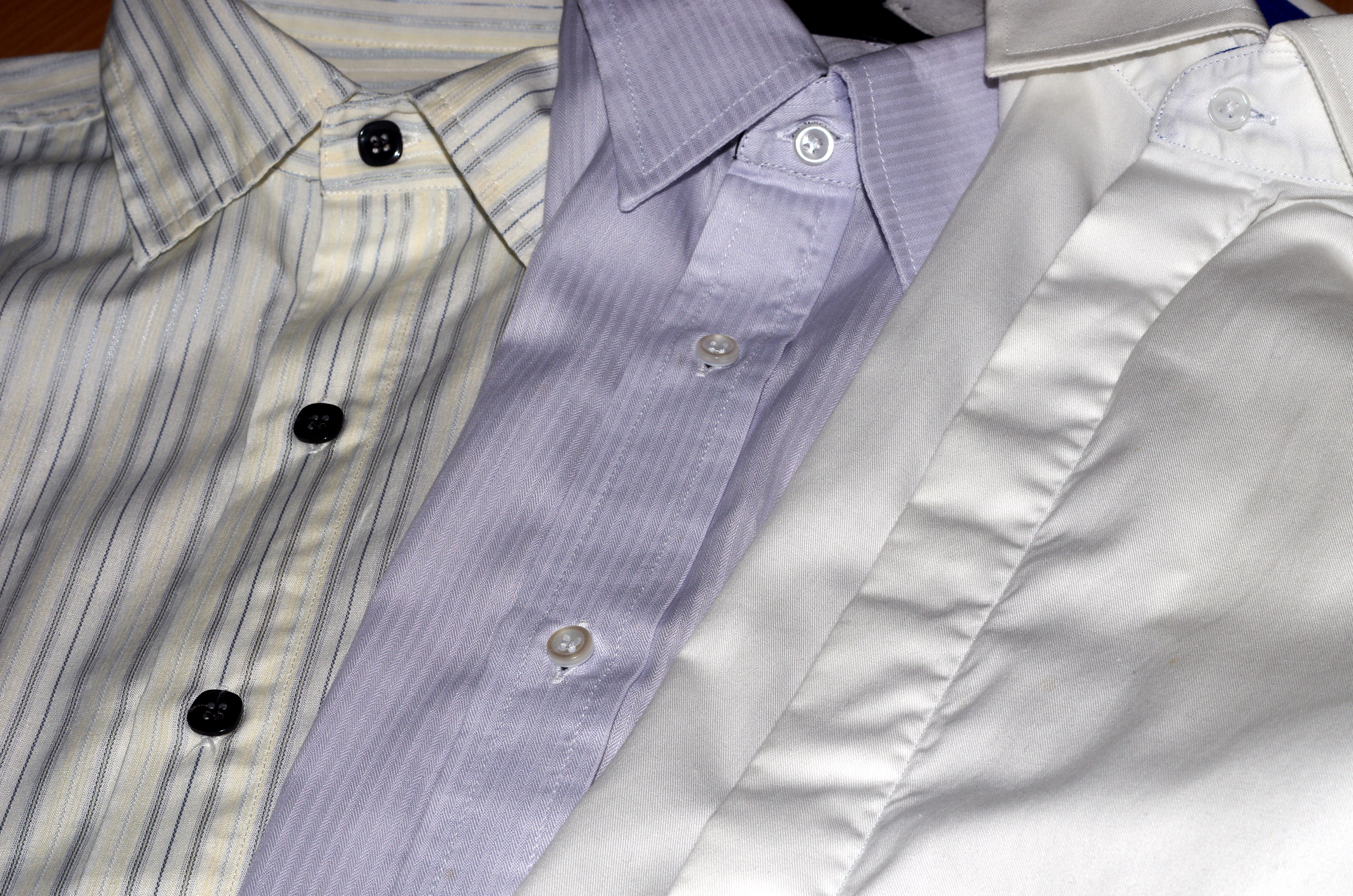 Different button fronts (from left to right): French front, placket front, fly front